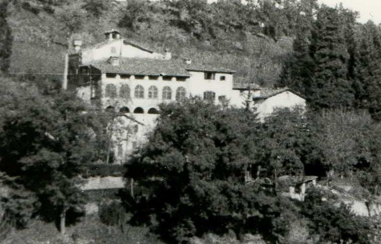 The Ruzza - Faltona Mugello - Florence. Villa Amerighi, already owned by the Terriesi (Enlarge)